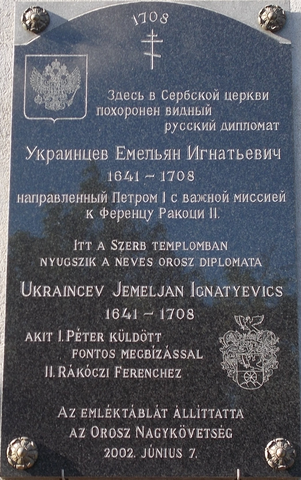 Saint Nicholas Orthodox Church. Yemelyan Ukraintsev, Russian diplomat grave plaque on chuch wall. The memorial plaque erected by Russian Embassy in 2002. - Vitkovics Street, Eger, Heves County, Hungary.